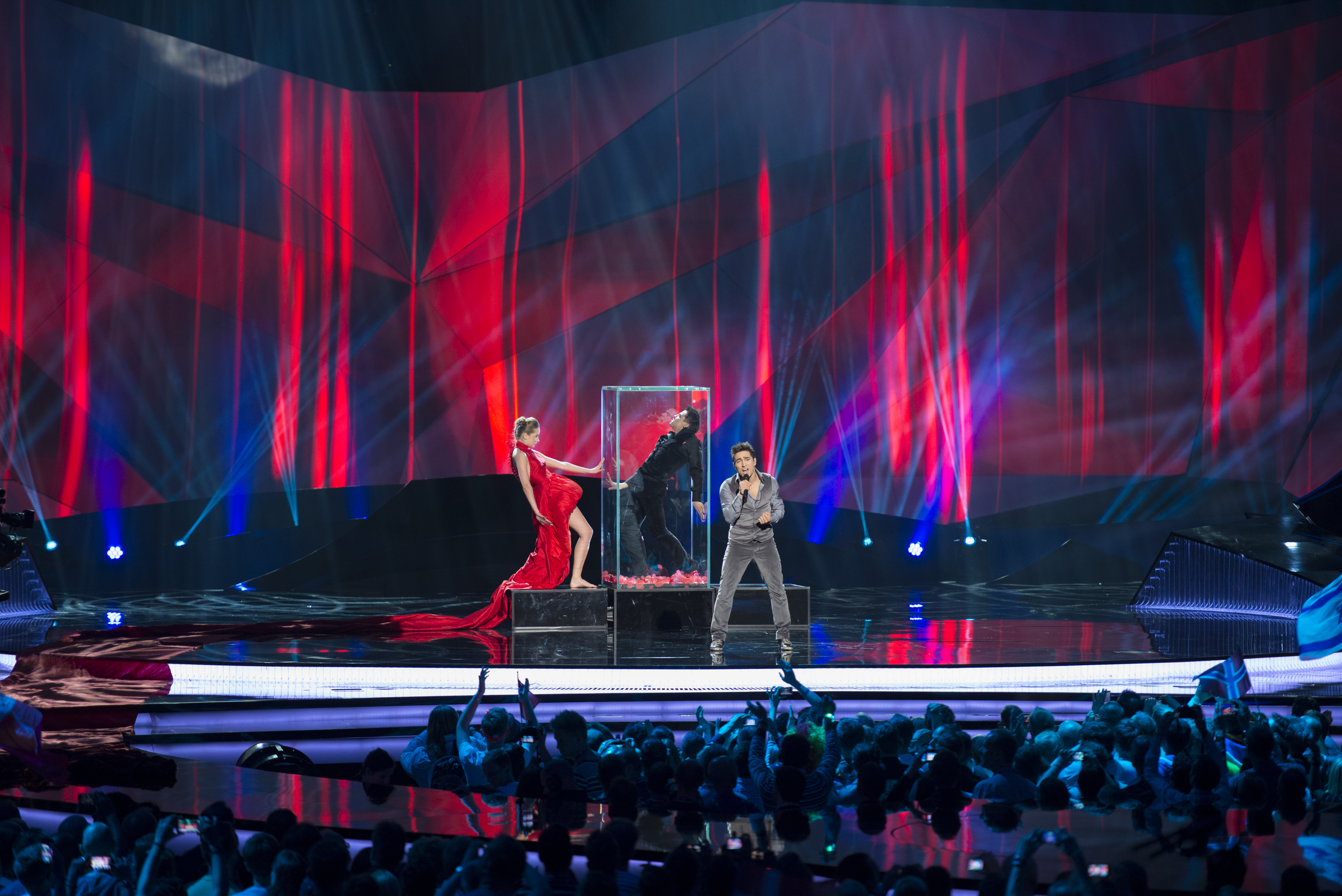 Farid Mammadov representing Azerbaijan with the song "Hold Me" during the second dress rehearsal of the second semi final of the Eurovision Song Contest 2013 in Malmö. (Help translate this text)